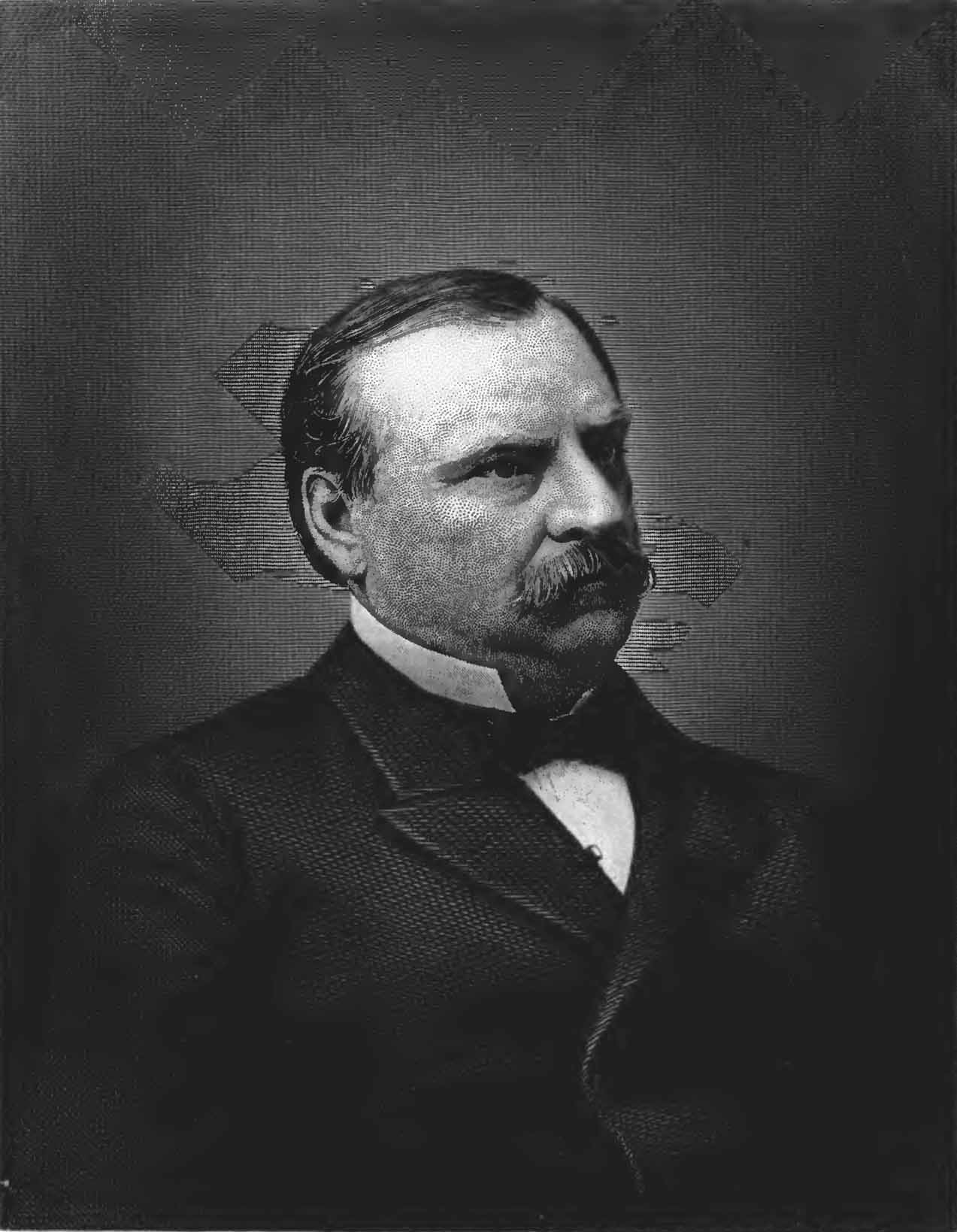 Engraved portrait of Grover Cleveland, president of the U. S.